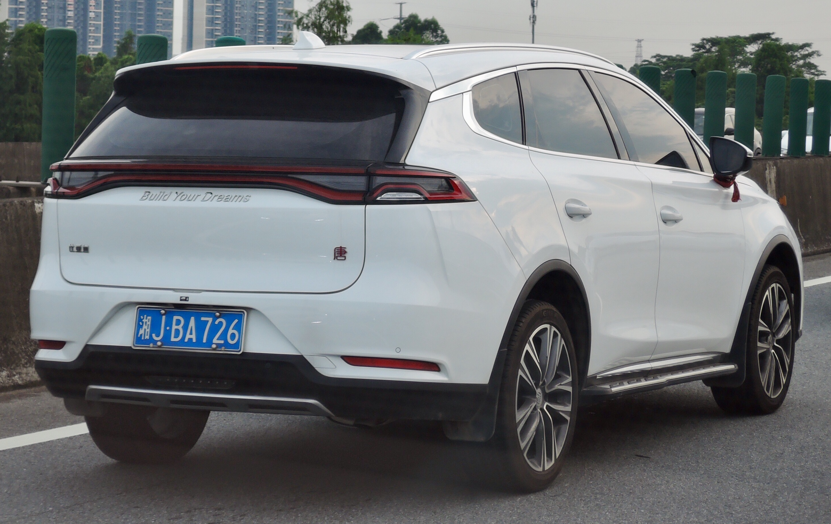 A 2016 BYD Tang taken in S43 Provincial-Level Road near Dailiang, Guangdong province, China. 中文（中国大陆）: 一辆2016年的比亞迪唐，摄于中国广东省S43省道近大良。